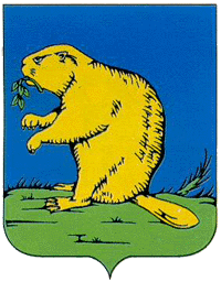 Coat of Arms for Bibrka city in Lviv Oblast Ukraine